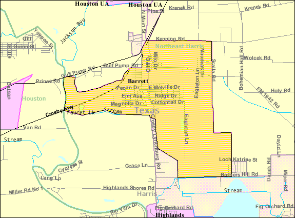 Map of Barrett CDP